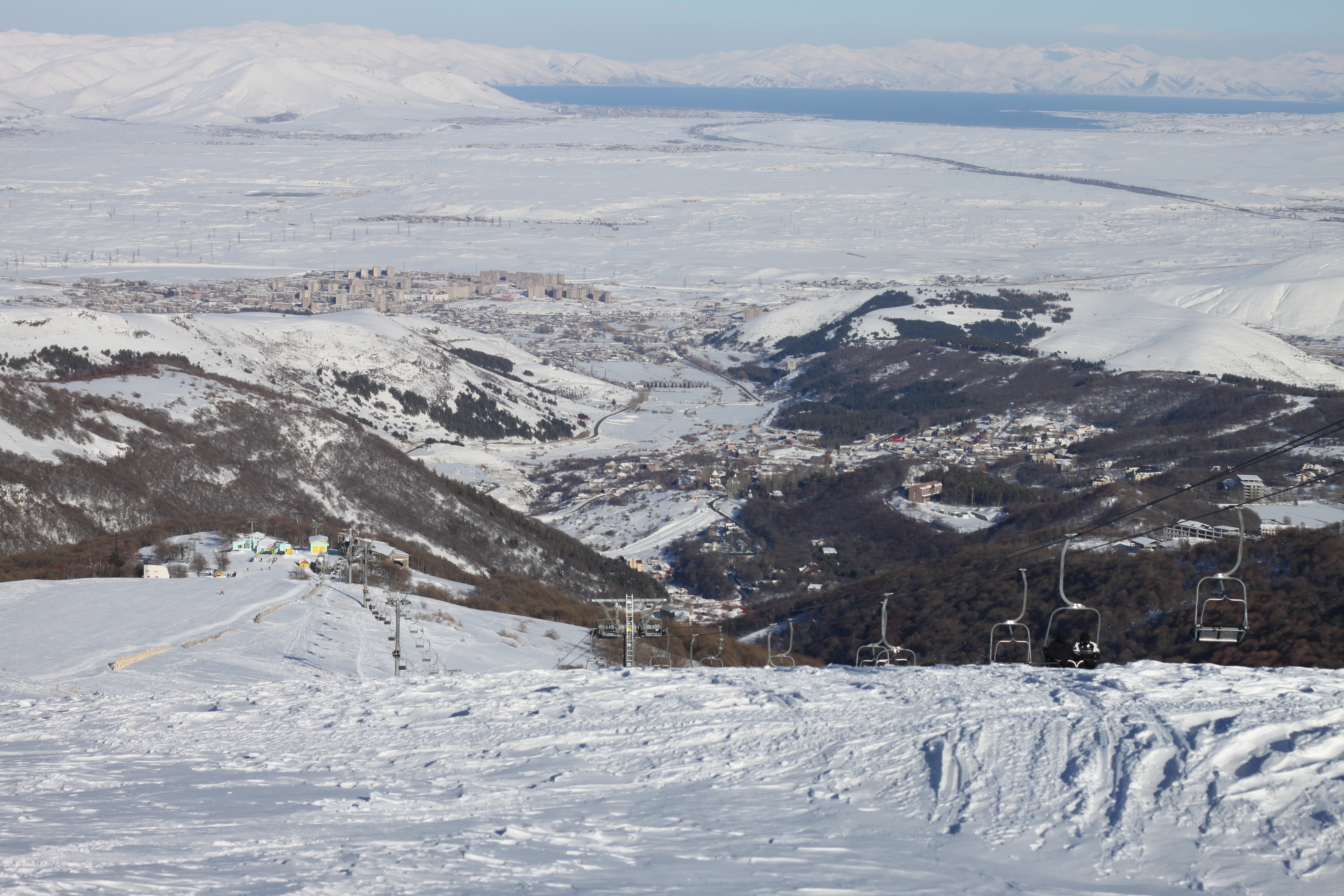 The view from the second ski route at the Tsakhkadzor ski resort in Armenia. Lake Sevan is the body of water in the background, in the upper part of the image. The city of Sevan can be seen in the center top. The town of Jrarat can be seen in the center left, while the town of Tsaghkadzor is in the center and center right. The 11th century Armenian monastery of Kecharis is visible in the center of Tsaghkadzor.